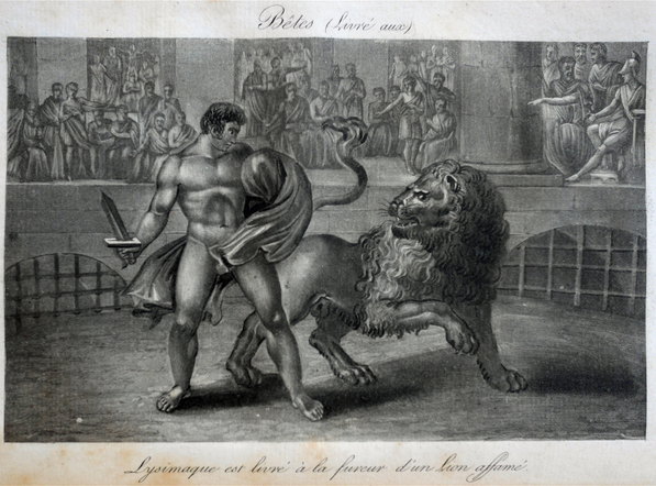 Lysimaque est livré à la fureur d'un lion affamé.